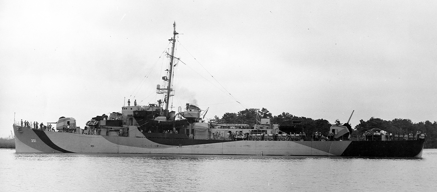 The U.S. Navy destroyer escort USS Maurice J. Manuel (DE-351) on 30 June 1944, probably at Houston, Texas (USA), after commissioning. She is painted in Camouflage Measure 32, Design 14D.